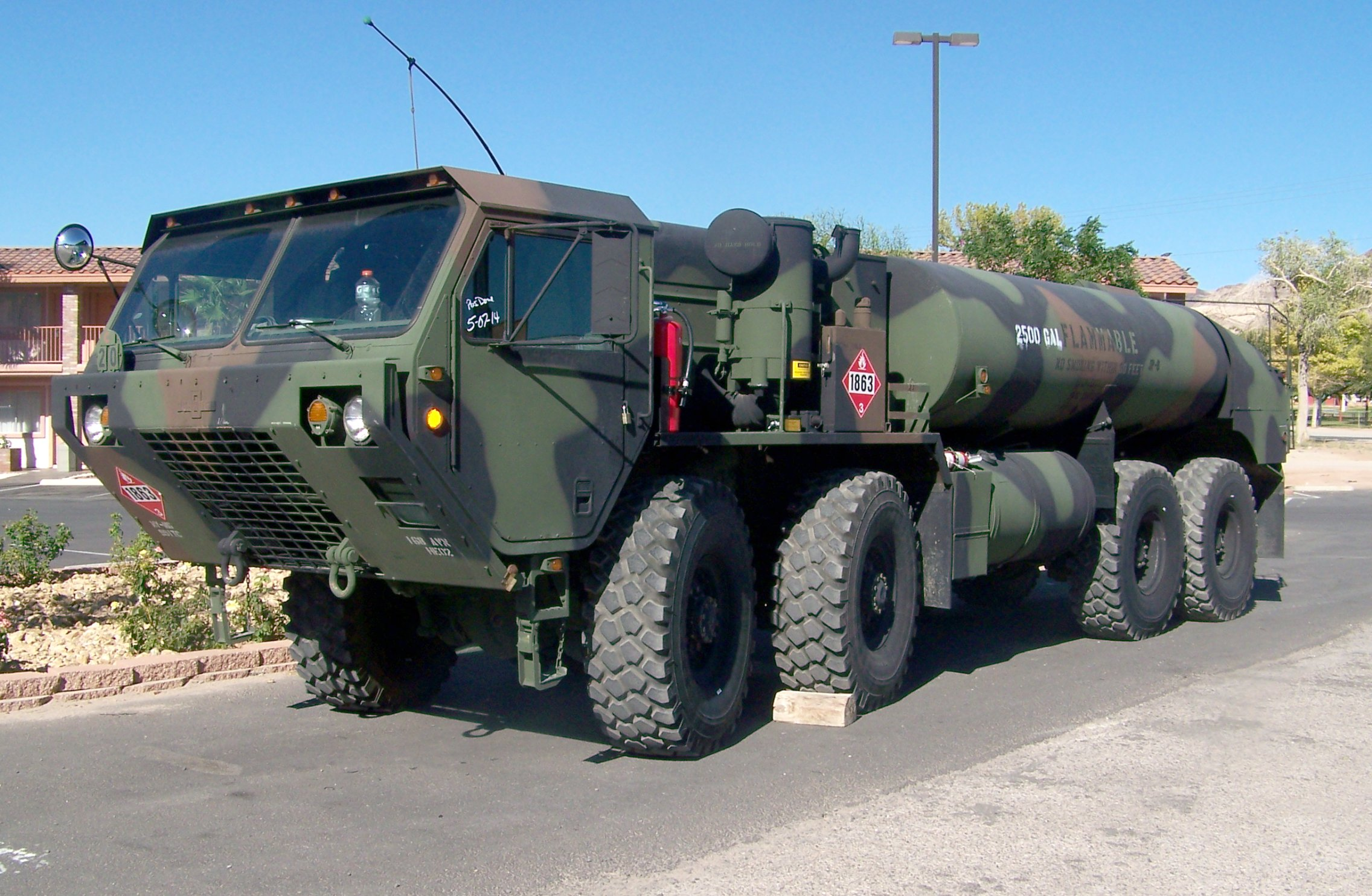 A M978 Heavy Expanded Mobility Tactical Truck (HEMTT) in Beatty, Nevada.